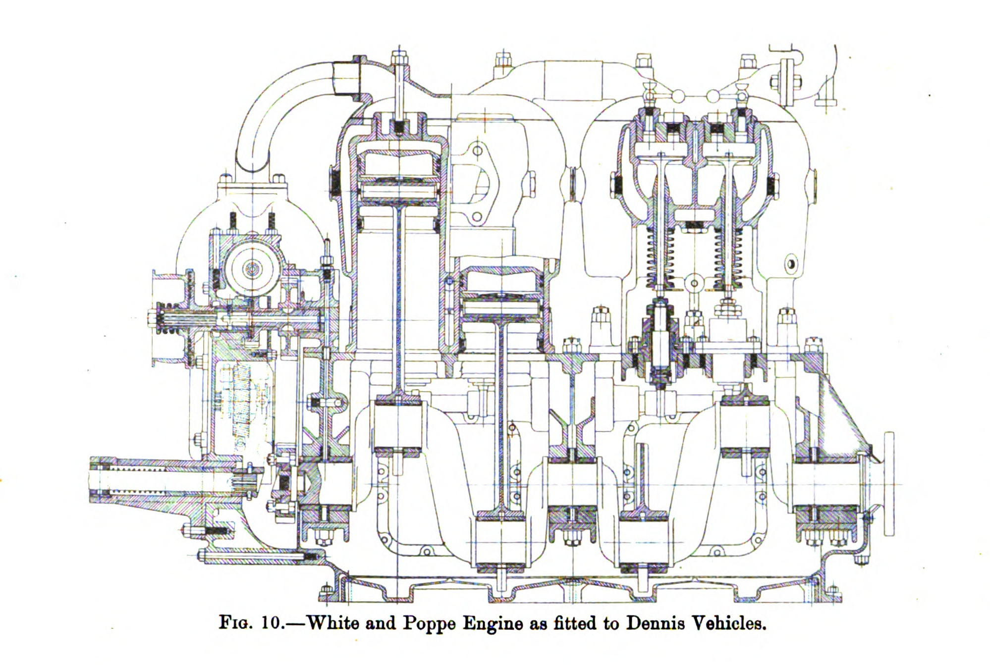 section White and Poppe engine for Leyland Brothers 1915